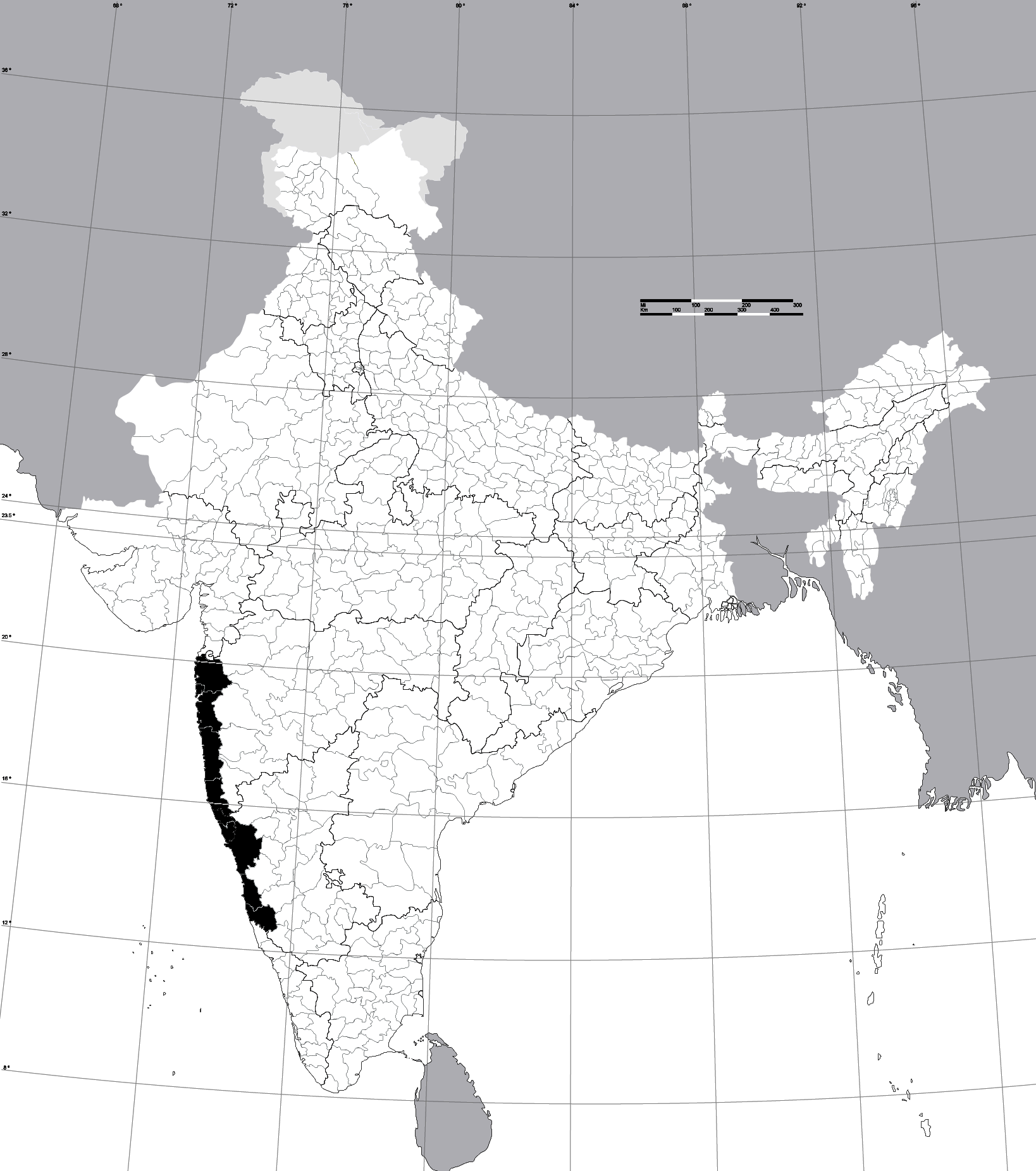 Modern Districts of India forming the Konkan